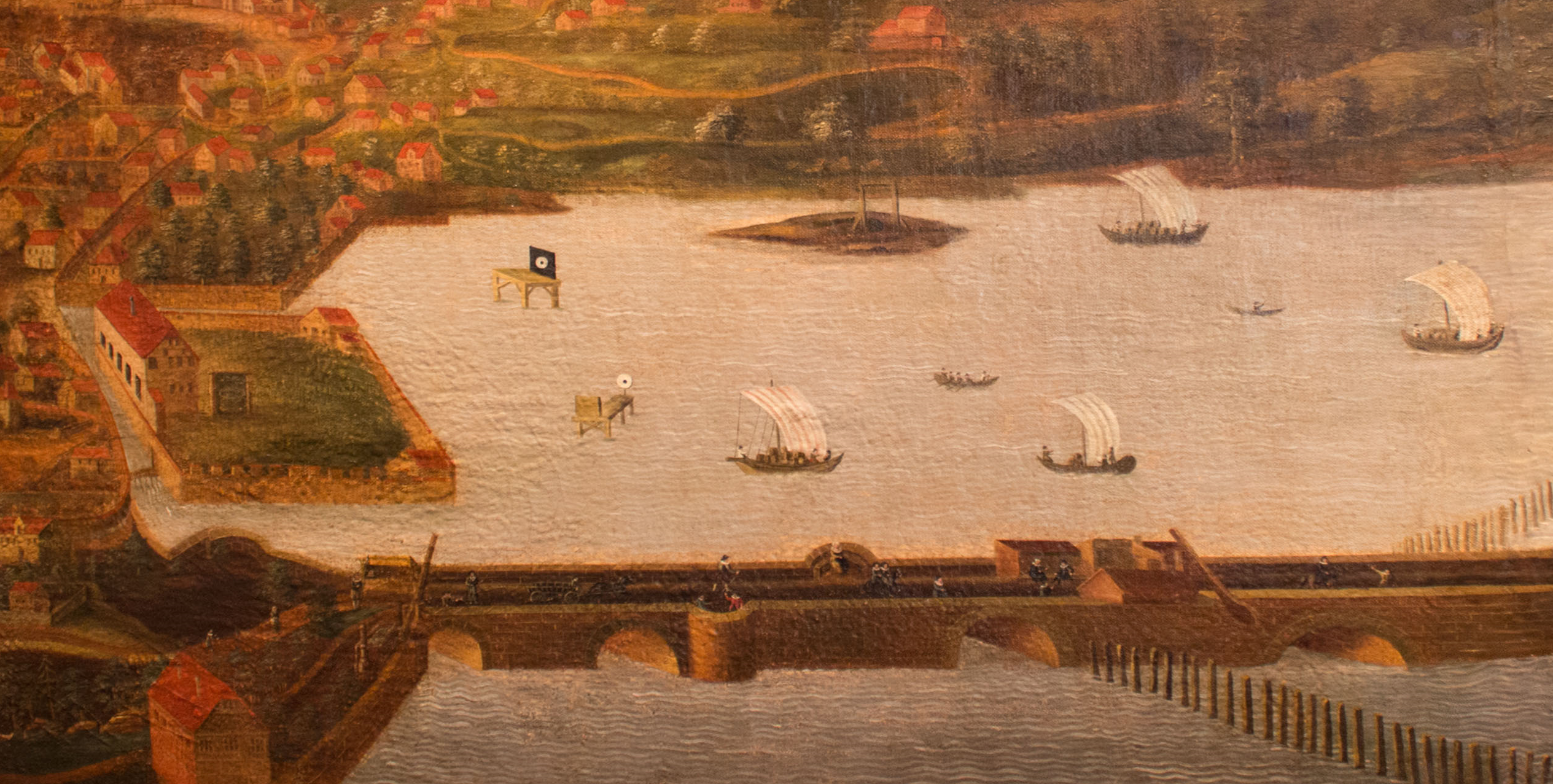 Detail from a wide angle painting, to show the Galgeninsel island in Bodensee. The island is gone by now. The painting is from 1579. It is a ca. 1 x 5 m painting displayed in the local town museum.